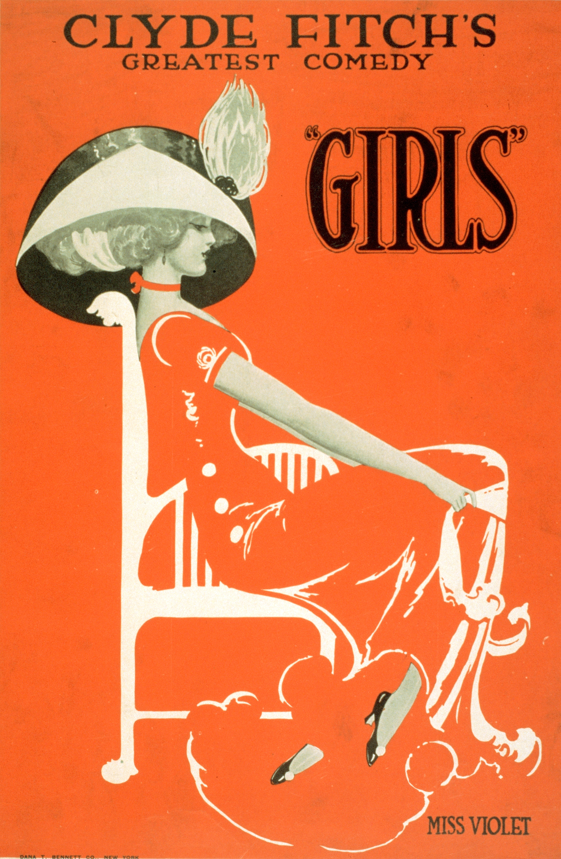 Color lithograph poster for "Girls", a comedy by American dramatist Clyde Fitch (1865-1909)